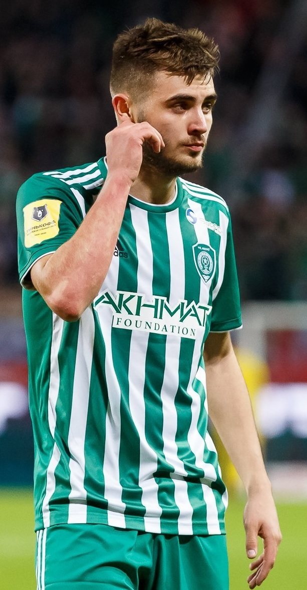 Maksim Nenakhov with FC Akhmat Grozny in a game against FC Lokomotiv Moscow.